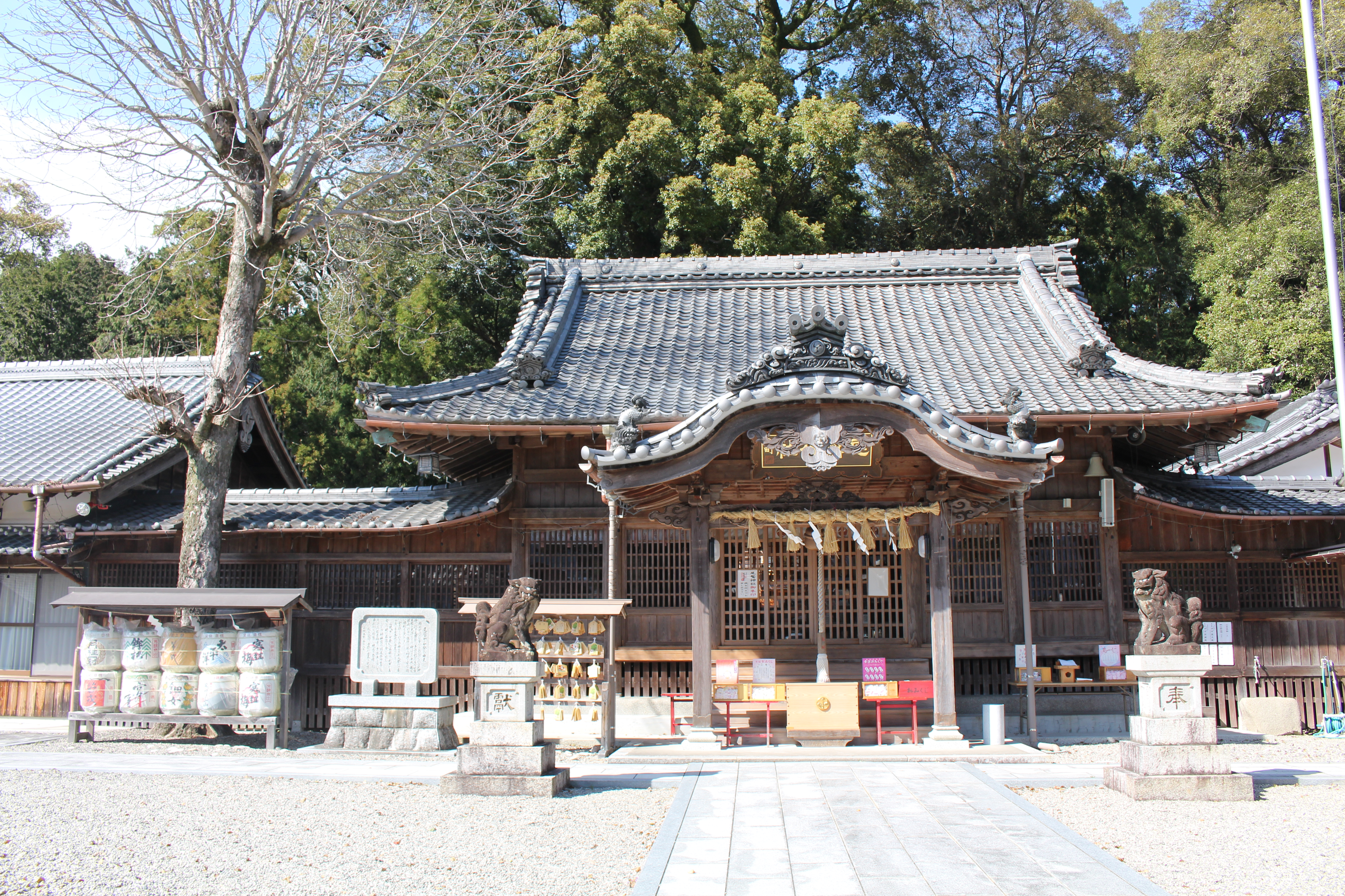 Owase-jinja, a shinto shrine in Owase, Mie prefecture, Japan.